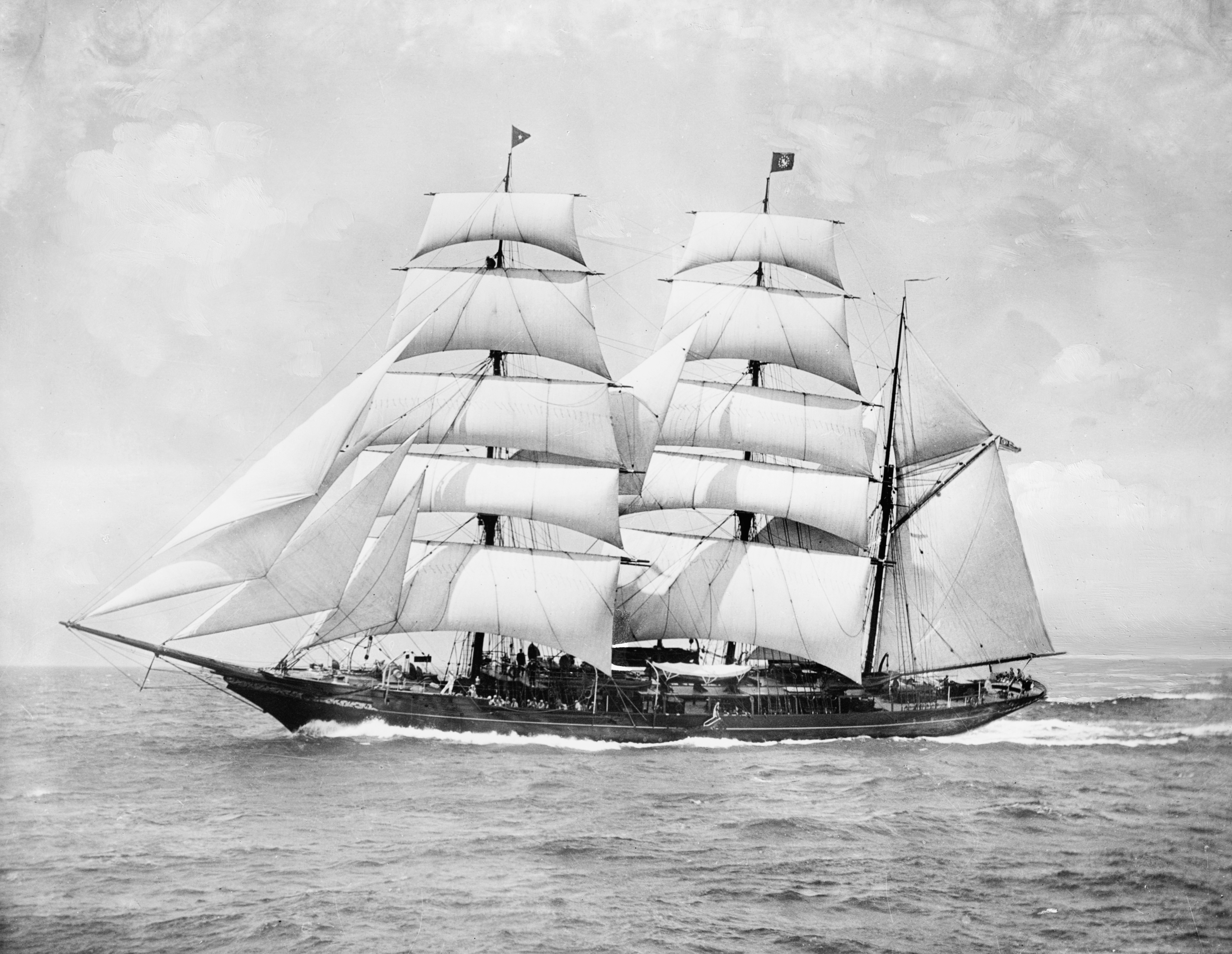 American Yacht „Aloha“. Reproduction Number: LC-D4-43711